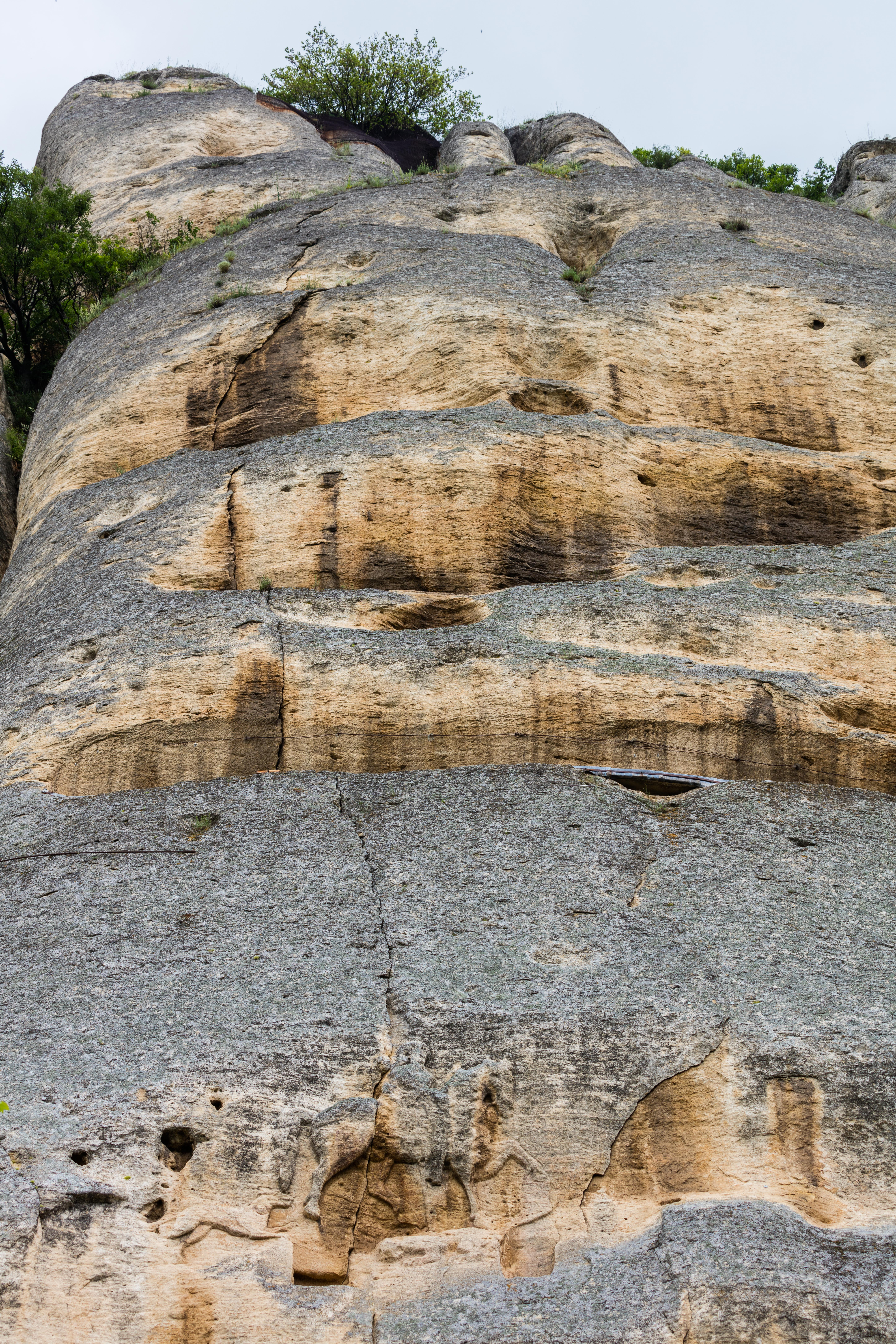 Madara Rider, National historical archaeological reserve, Bulgaria